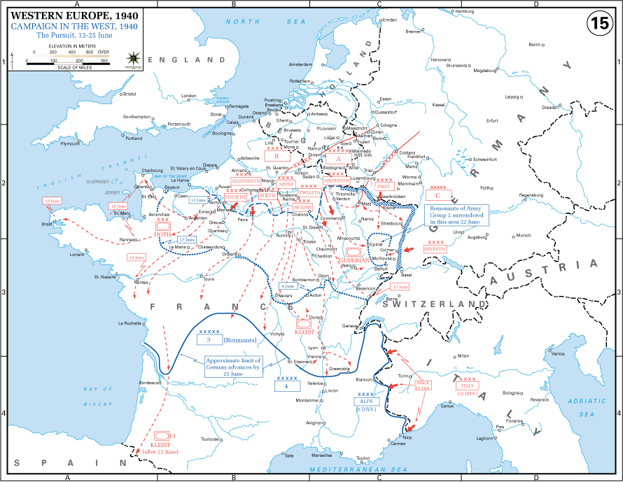 The German offencive in June following the fall of Paris